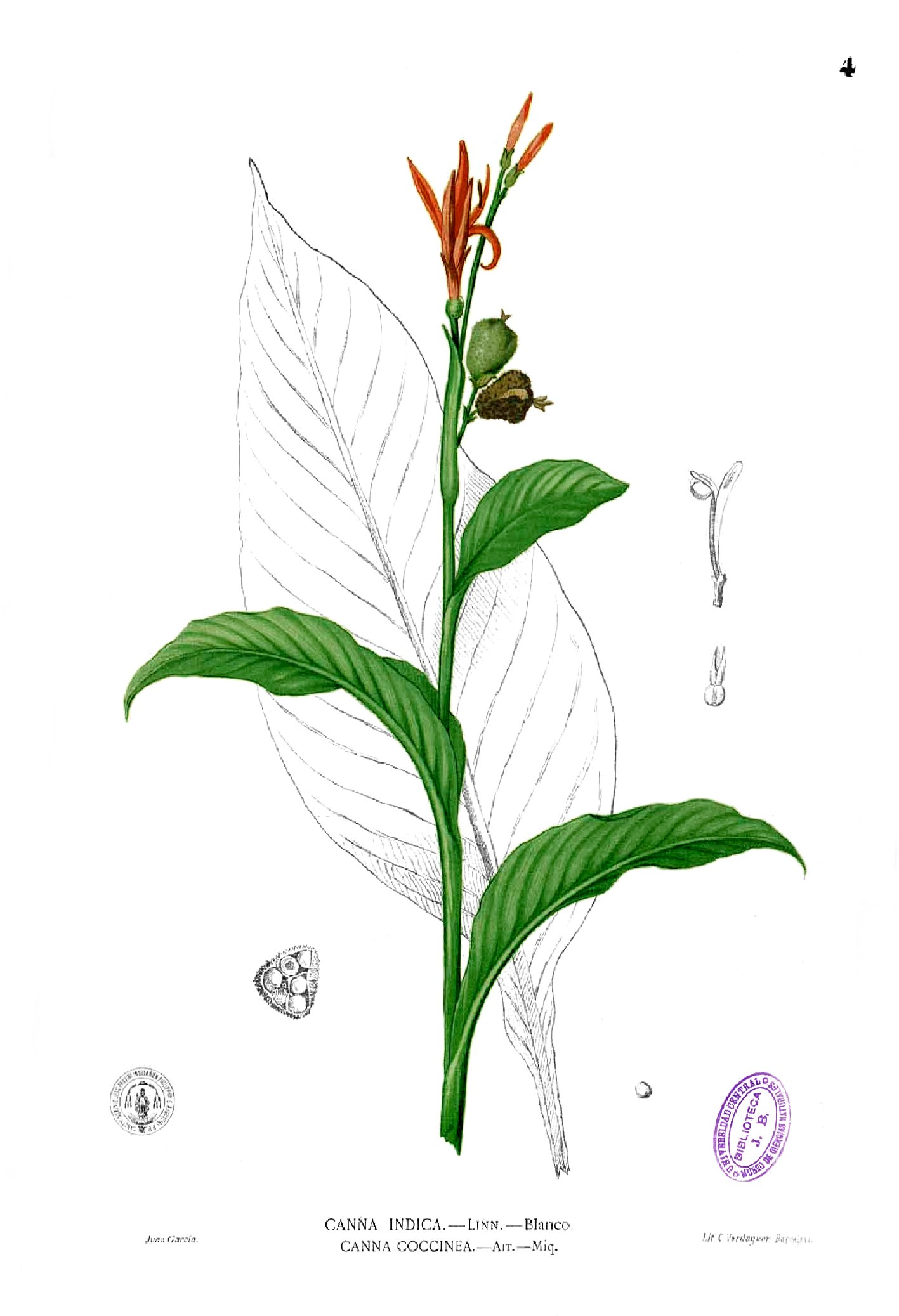 Canna indica Plate from book